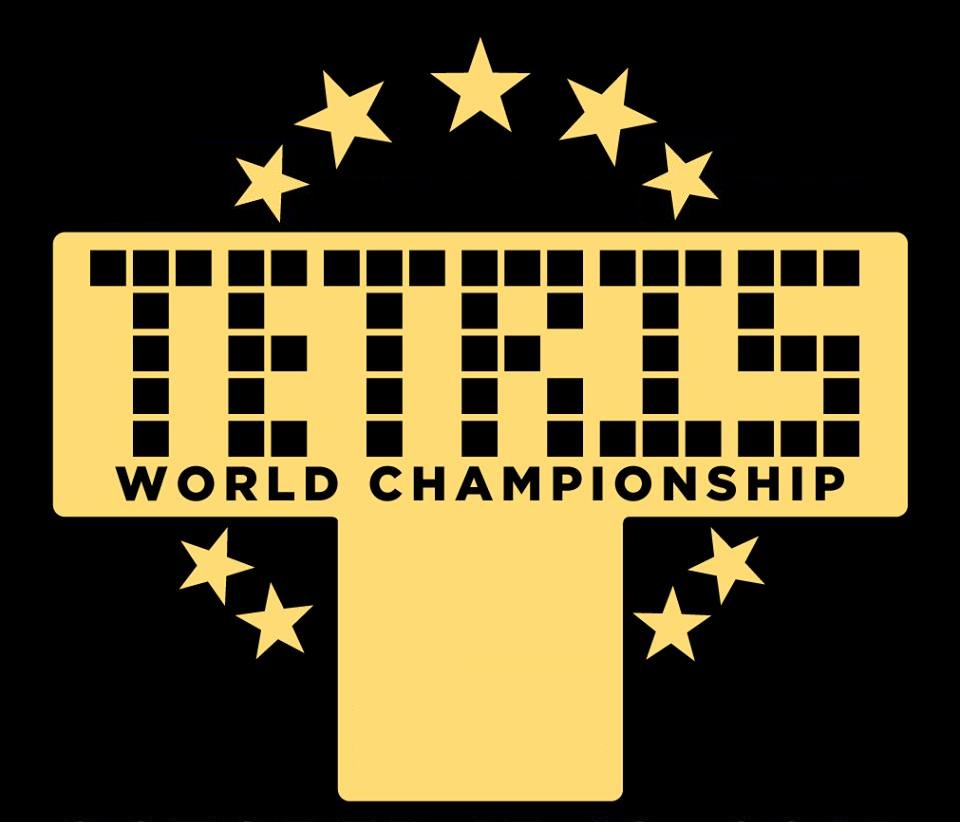 This is the logo for the Classic Tetris World Championship.